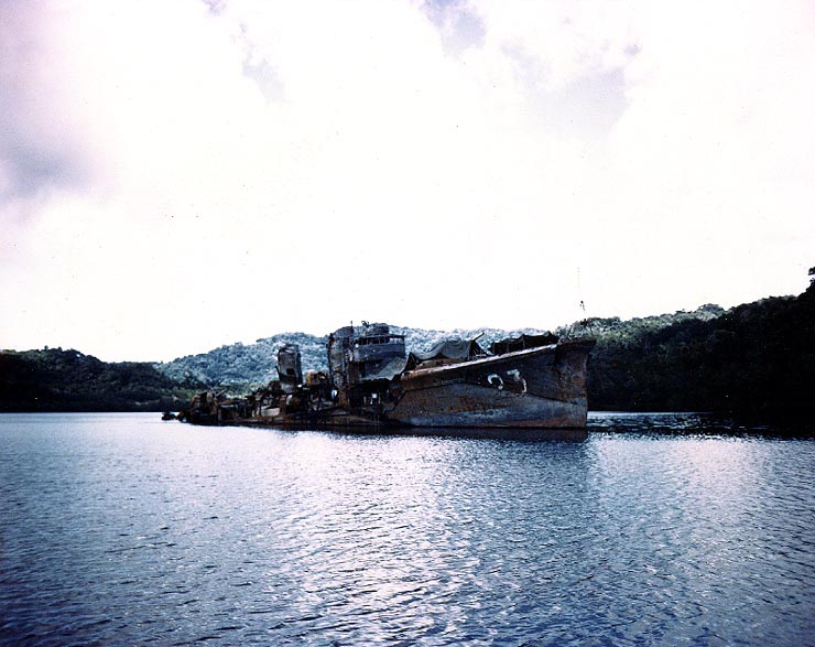 The Japanese destroyer Kikuzuki (1926-1942) beached in Purvis Bay, Florida Island, Solomon Islands, in 1944. She had been sunk on 4 May 1942, when USS Yorktown (CV-5) planes raided the Tulagi area, and was salvaged by the U.S. Navy in 1943.